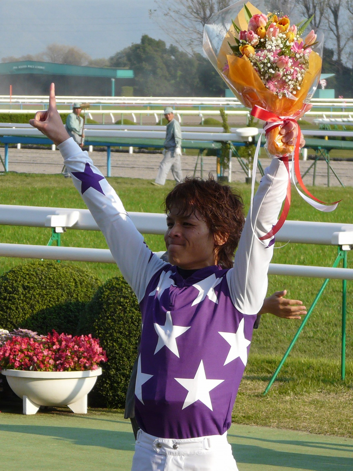 Jun-Takada